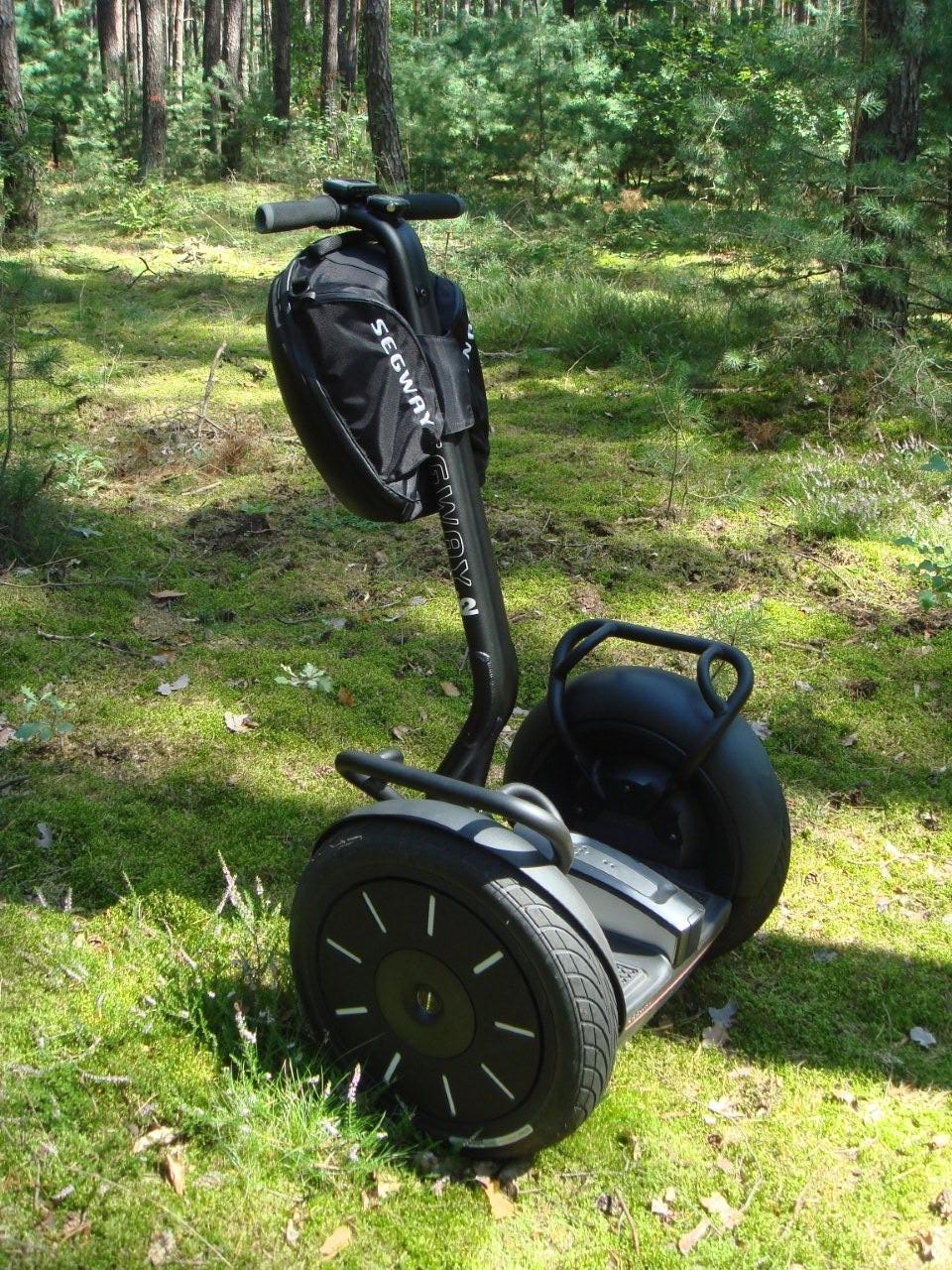 Picture of green Segway